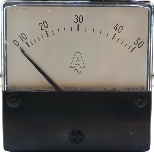 ammeter